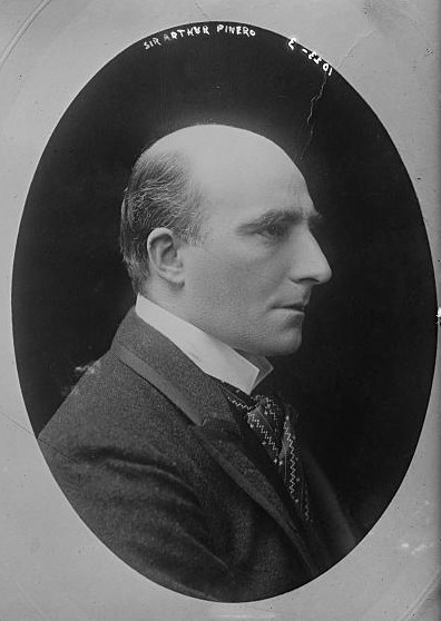 Sir Arthur Wing Pinero (1855- 1934), English dramatist